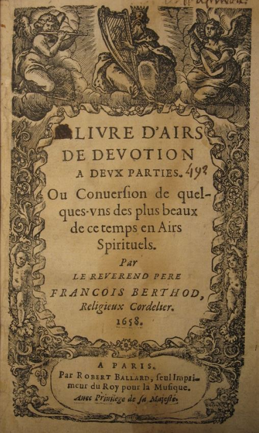 Title page of François Berthod's IId livre d'airs de dévotion (Paris, 1658)